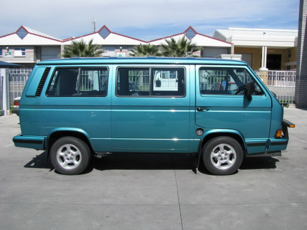 1997 South African "Big Window" Volkswagen 2.6i Caravelle